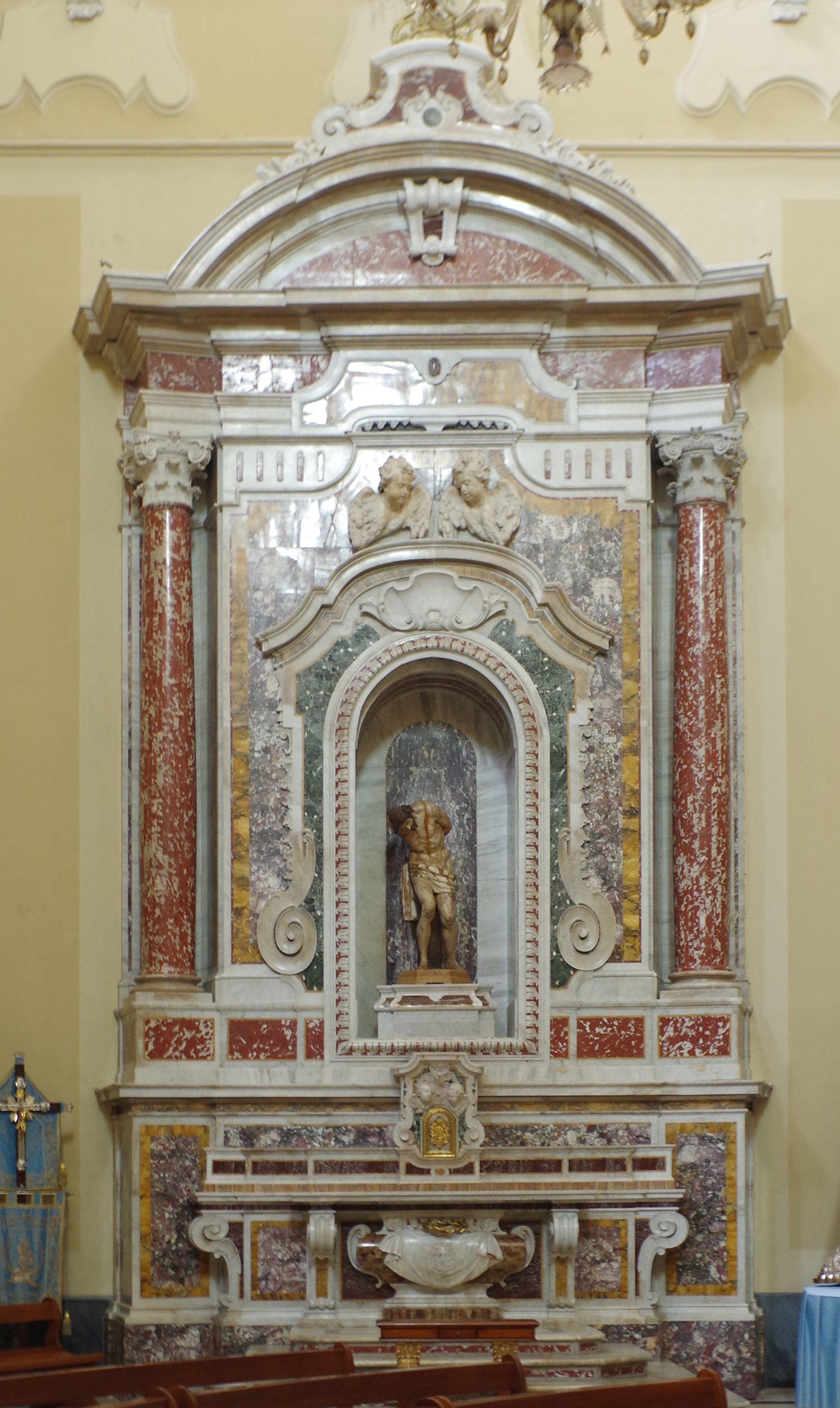 Italy, Martina Franca, San Martino church, altar Cristo alla colonna o della Flagellazione